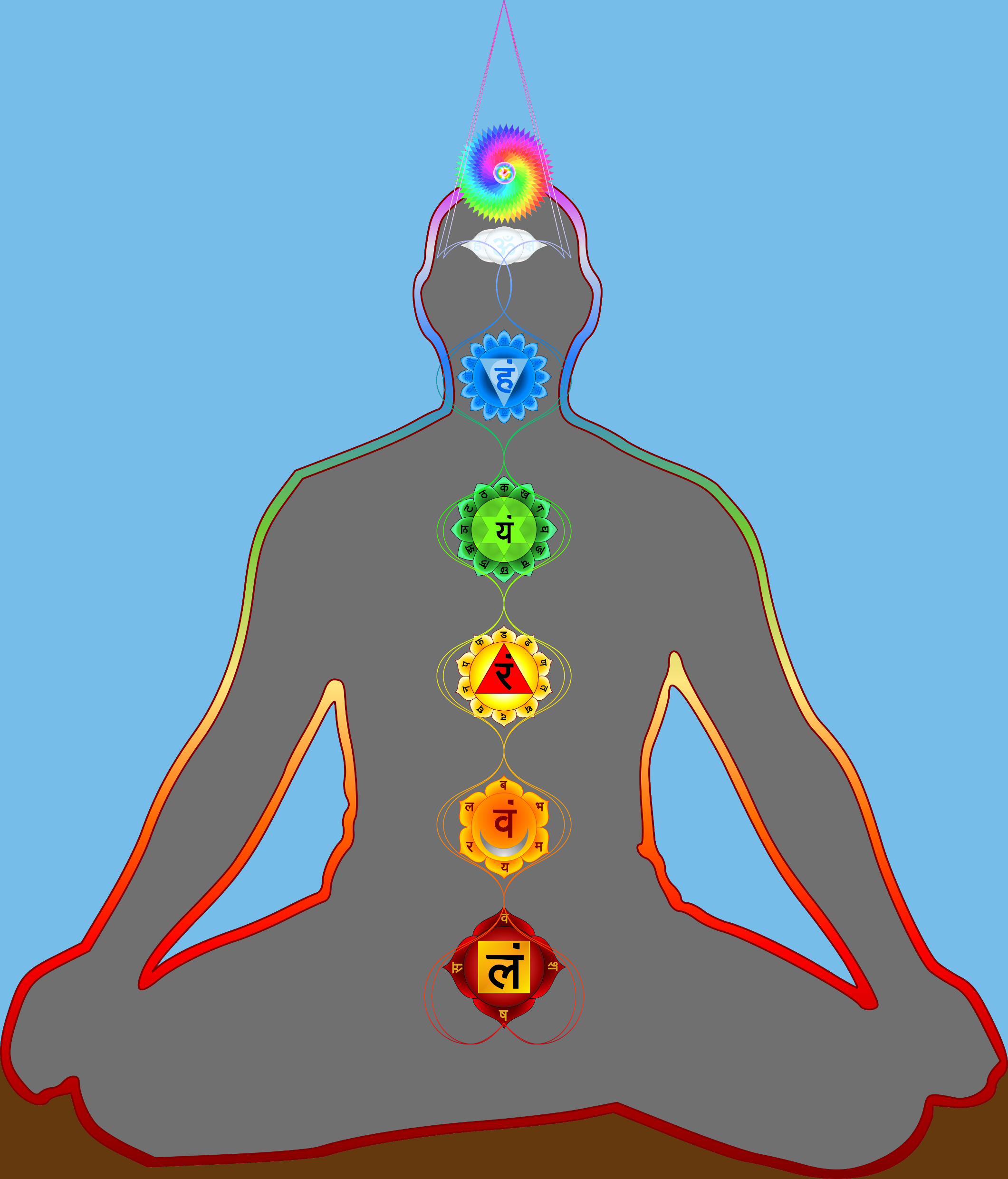 Siddhasana, Yoga Asana, adept's or perfect pose, Svastikasana ( fortunate ~), Muktasana (freedom, liberated ~ ) and Guptasana